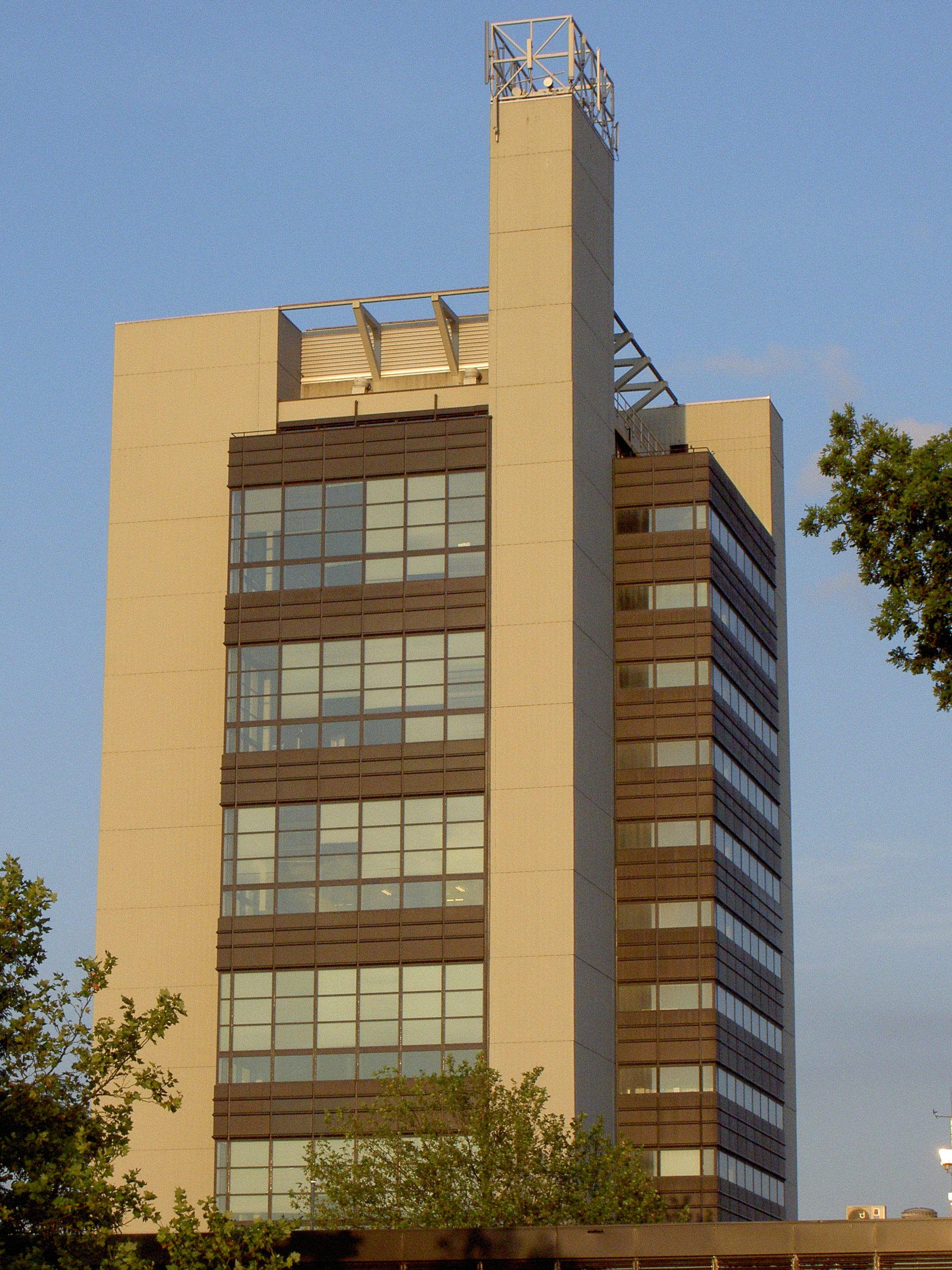 The 'Horsttoren', only the upper part. Houses Mechanical enginering and Industrial design.